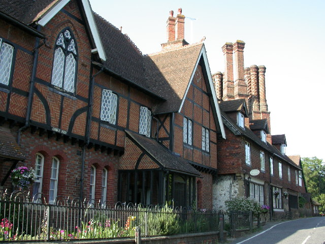 Old Cottages, Albury. There are several buildings in this area with these distinctive spiral chimneys. This row of cottages includes the old Post Office.